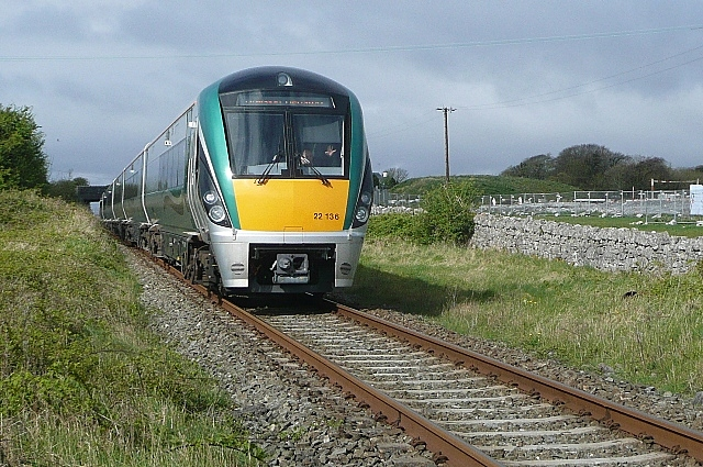 Rosshill level crossing This is the 10:50 Iarnród Éireann (Irish Rail) Galway to Dublin service. The service on this single track line is approximately every two hours, amazingly infrequent between Ireland's 3rd largest city and her capital. The train is heading towards us still accelerating away from Galway.